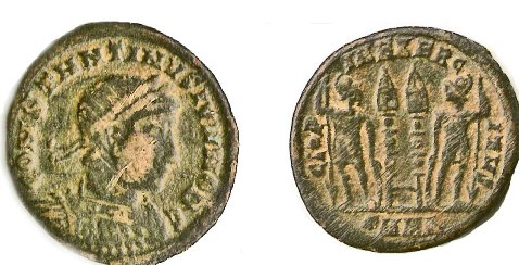 Roman copper alloy coin. The coin is a nummus of Constantine II as Caesar (AD 317-337). The coin was found by a primary school pupil from Devon. Information for schools: The coin was made between the years 330 and 335 AD. This makes the coin nearly one thousand and seven hundred years old. The obverse (or the 'heads') of the coin show Constantine 'the second' wearing armour on his shoulders. The emperor is wearing a laurel wreath on his head. The words on the coin are in Latin, which was the language spoken by the Romans. The words translate into English as 'Constantine Junior, most noble Caesar'. The reverse (or the 'tails') of the coin shows two Roman soldiers with two military standards. Military standards were tall poles with different symbols on. Different units of the Roman army had their own standard. In battle, one of the soldiers would carry the standard in front so that the other soldiers could follow him. The Latin words on the reverse of the coin translate into English as 'The Glorious Army'. At the bottom of the coin are some letters. These letters are important because they show where the coin was made. The letters or 'mintmark' show us that this coin was made in a place called Nicomedia. Nicomedia is the ancient name for a city now called Izmit, in Western Turkey.